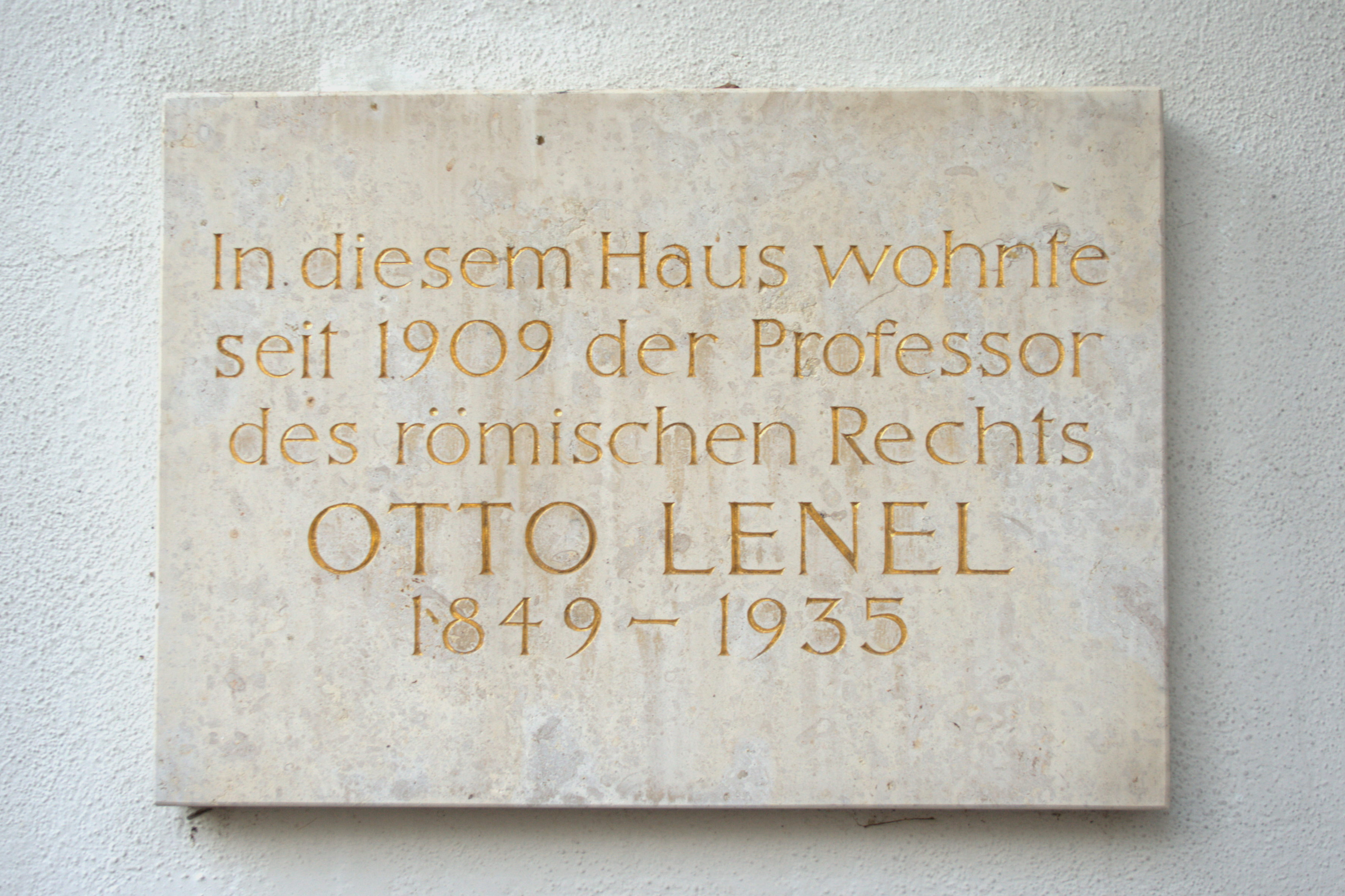 Plaque for Otto Lenel in front of his former house in Freiburg im Breisgau, Holbeinstraße 5